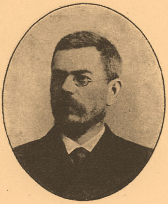 Illustration from Brockhaus and Efron Encyclopedic Dictionary (1890—1907)